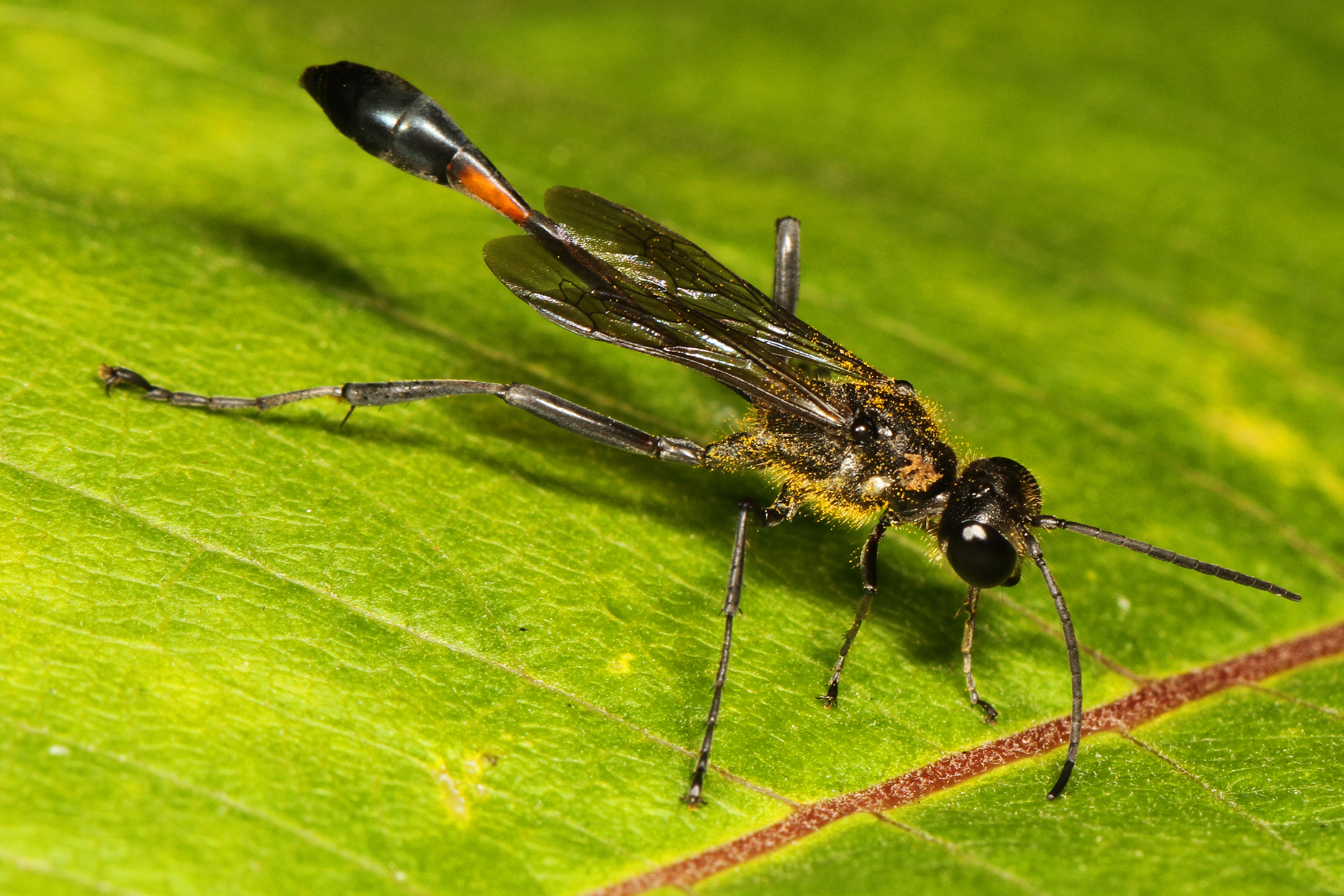 Thread-waisted Wasp - Ammophila procera, near Skyland, Shenandoah National Park, Virginia